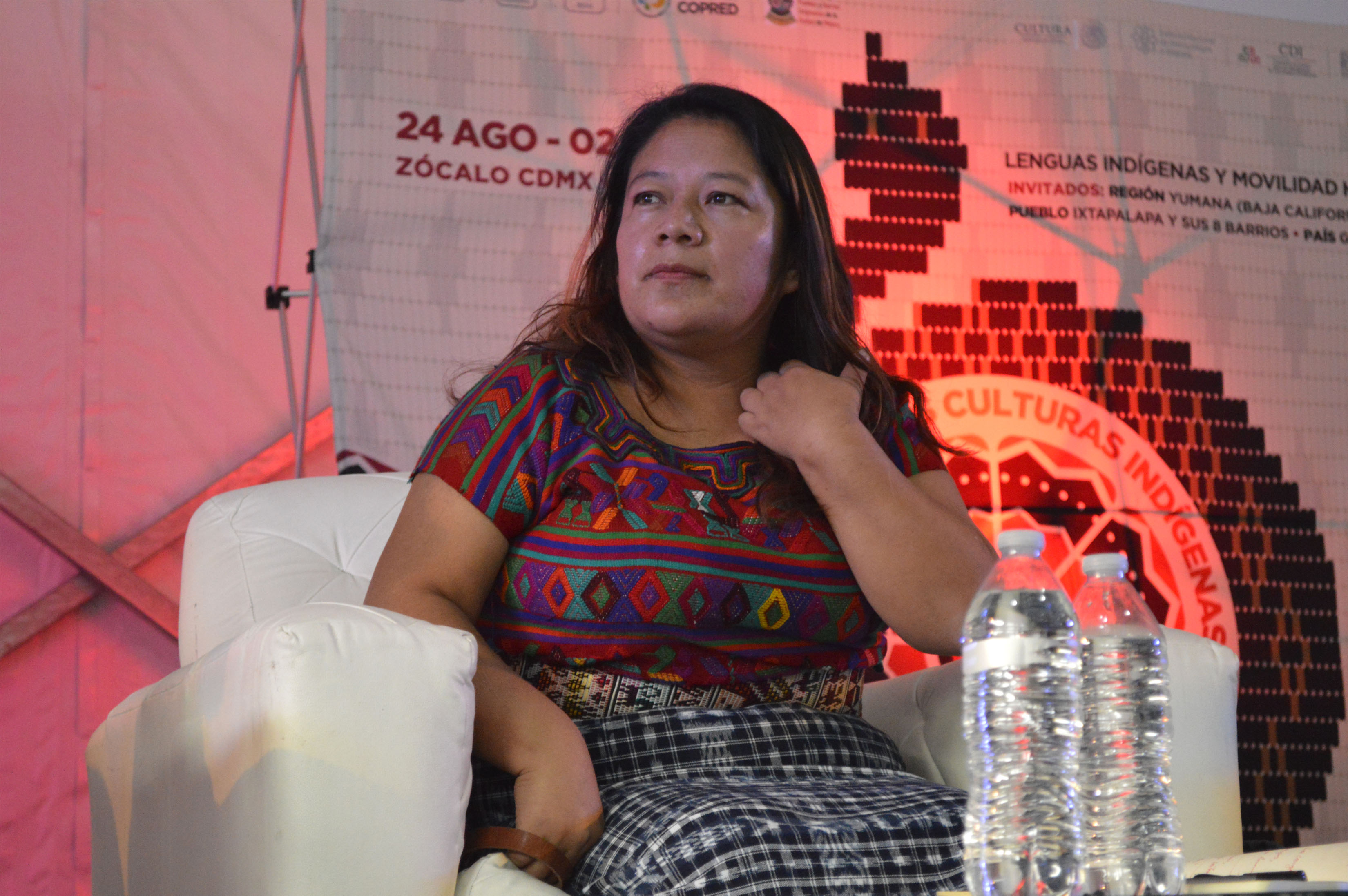 Sunday, September 2, 2018 At the fifth Festival of Indigenous Cultures, Indigenous Peoples and Neighborhoods, in the main square of the capital, the "Will for Life" presentation was made: the struggles of indigenous women against extractivism, given by Gladys Tzul Tzul and with the presence of the Secretary of Culture of the CDMX, Eduardo Vázquez Martín. Photo by: Ricardo Colin/Secretary of Culture